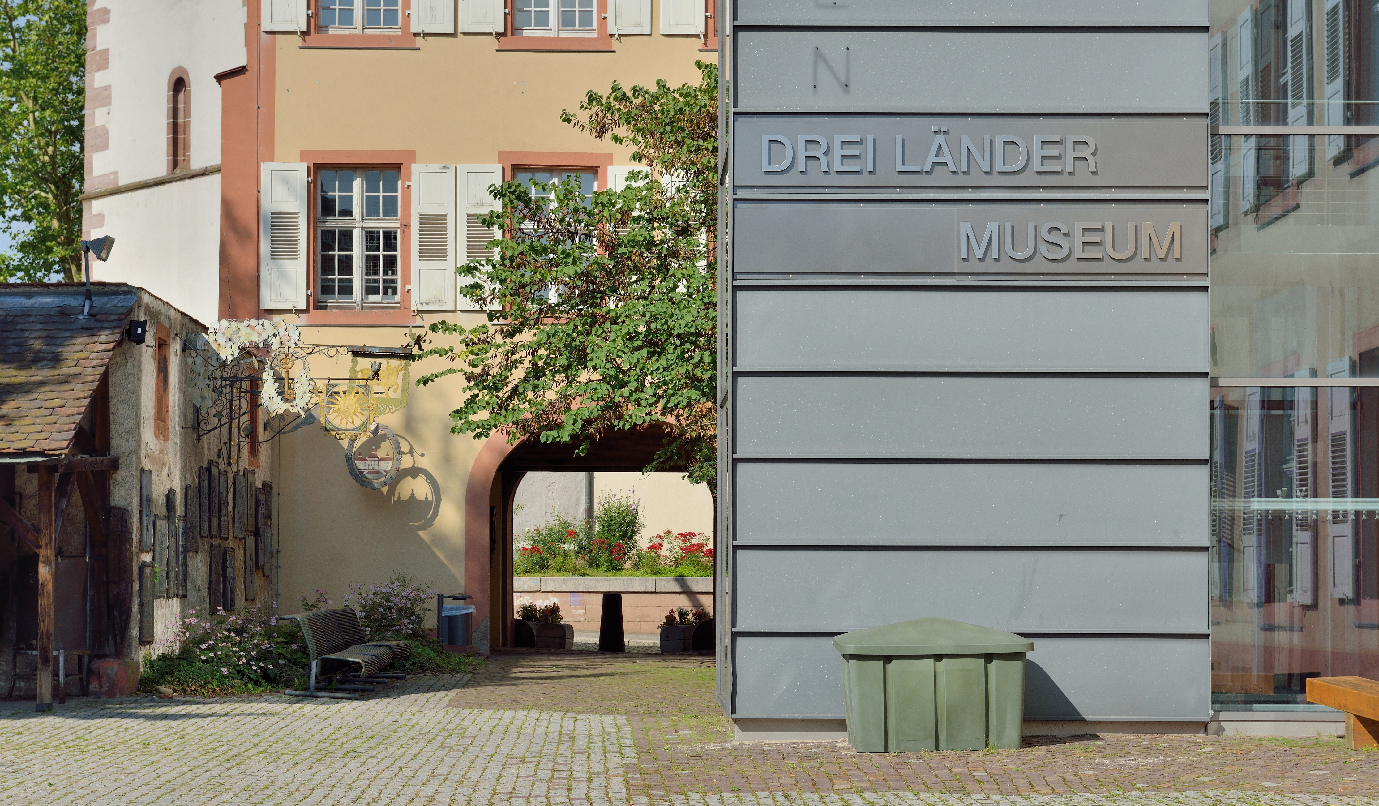 Lörrach: Museum of the three countries (Dreiländermuseum)